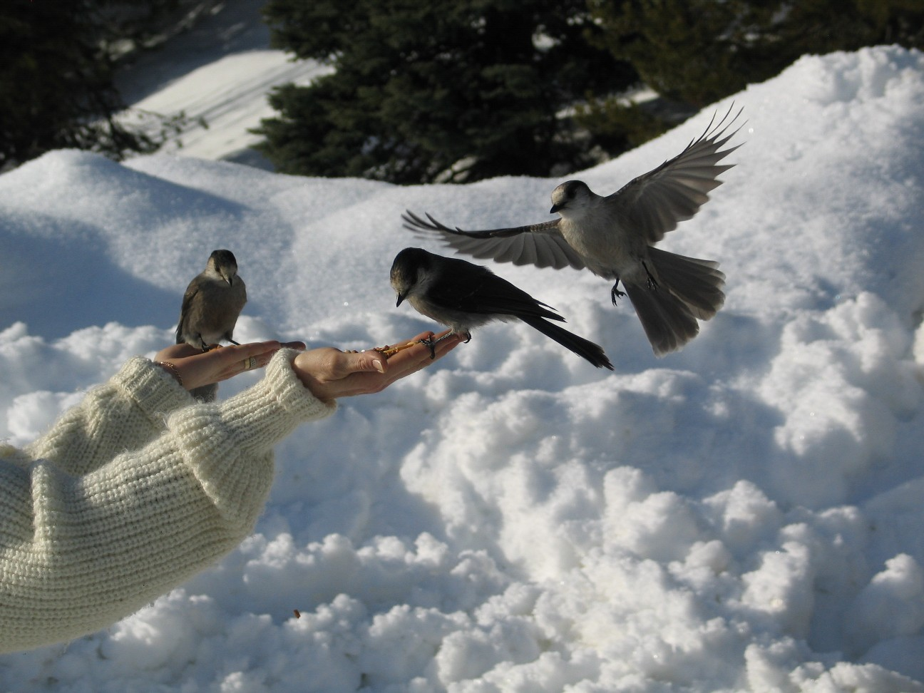 Gray Jays eating from some lady's hand in Manning Park BC Canada